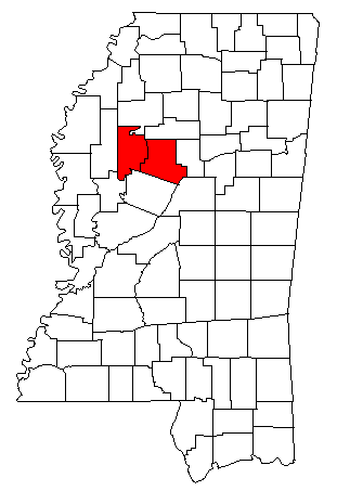 Map of Mississippi highlighting the Greenwood Micropolitan Area; created using the GIMP. Made by User:Acntx.